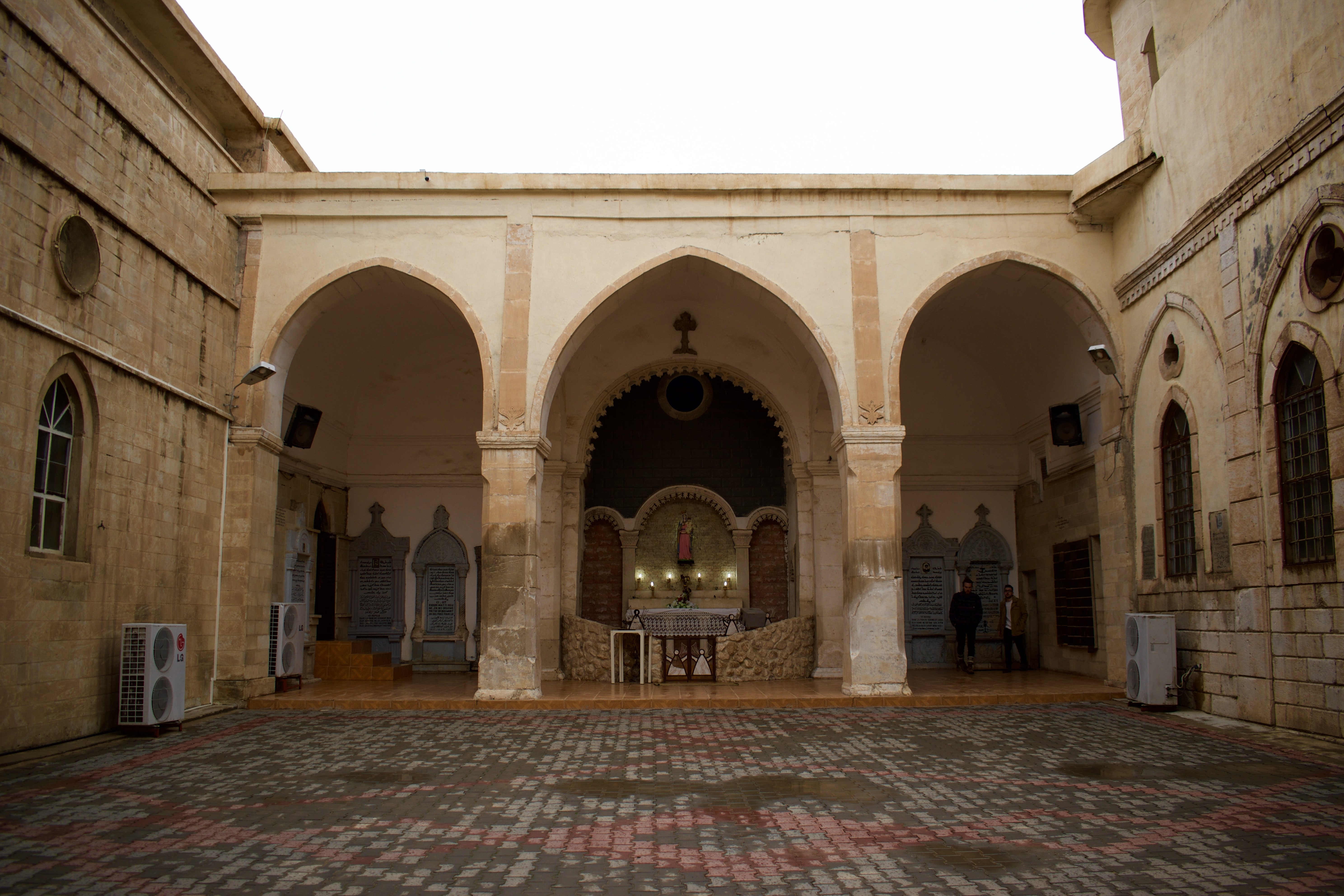 Church of Saint George in alQosh